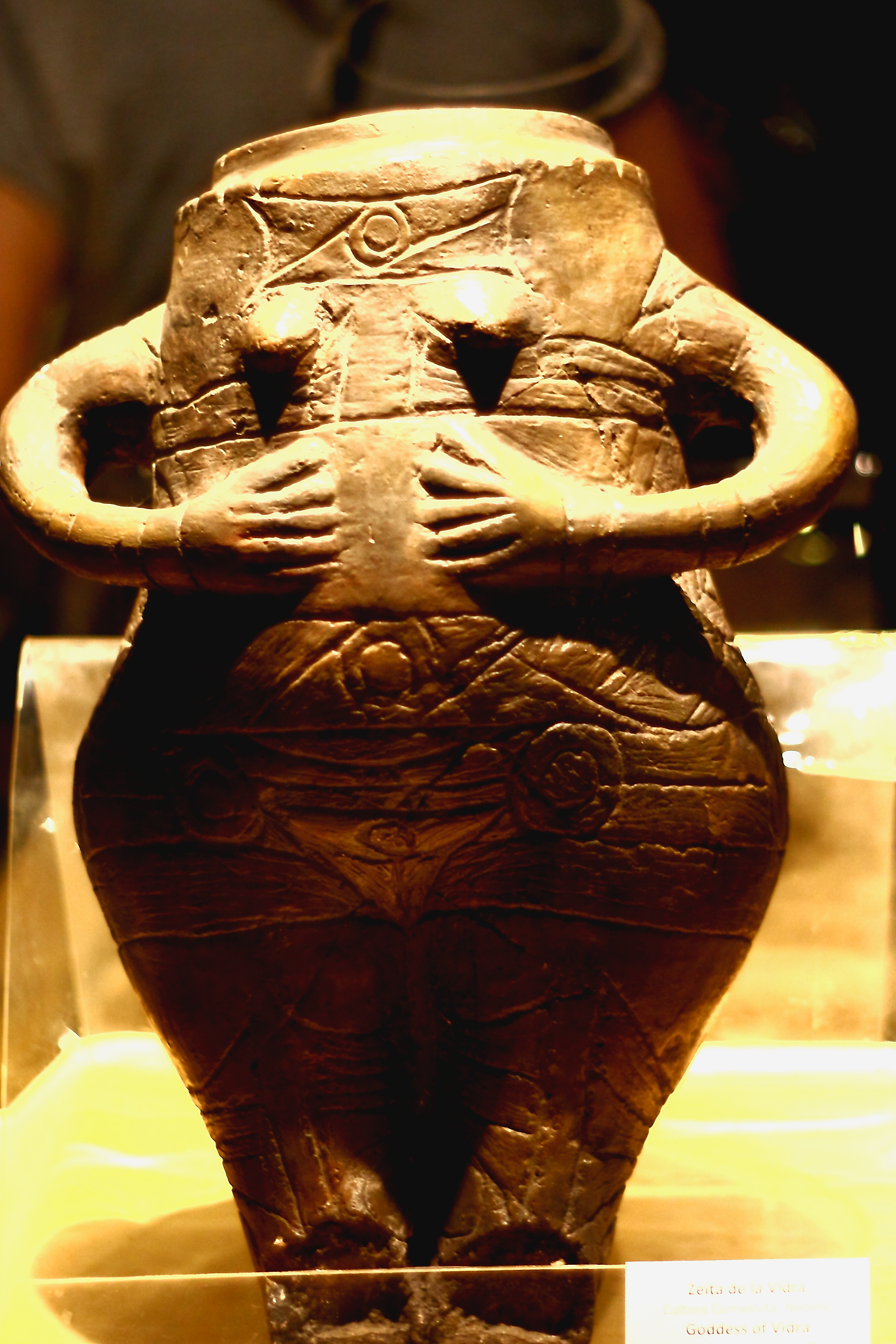 Anthropomorphic vase, known as 'Goddess of Vidra', from the Gumelnita settlement at Vidra, district of Ilfov south of Bucharest, lower Danube basin